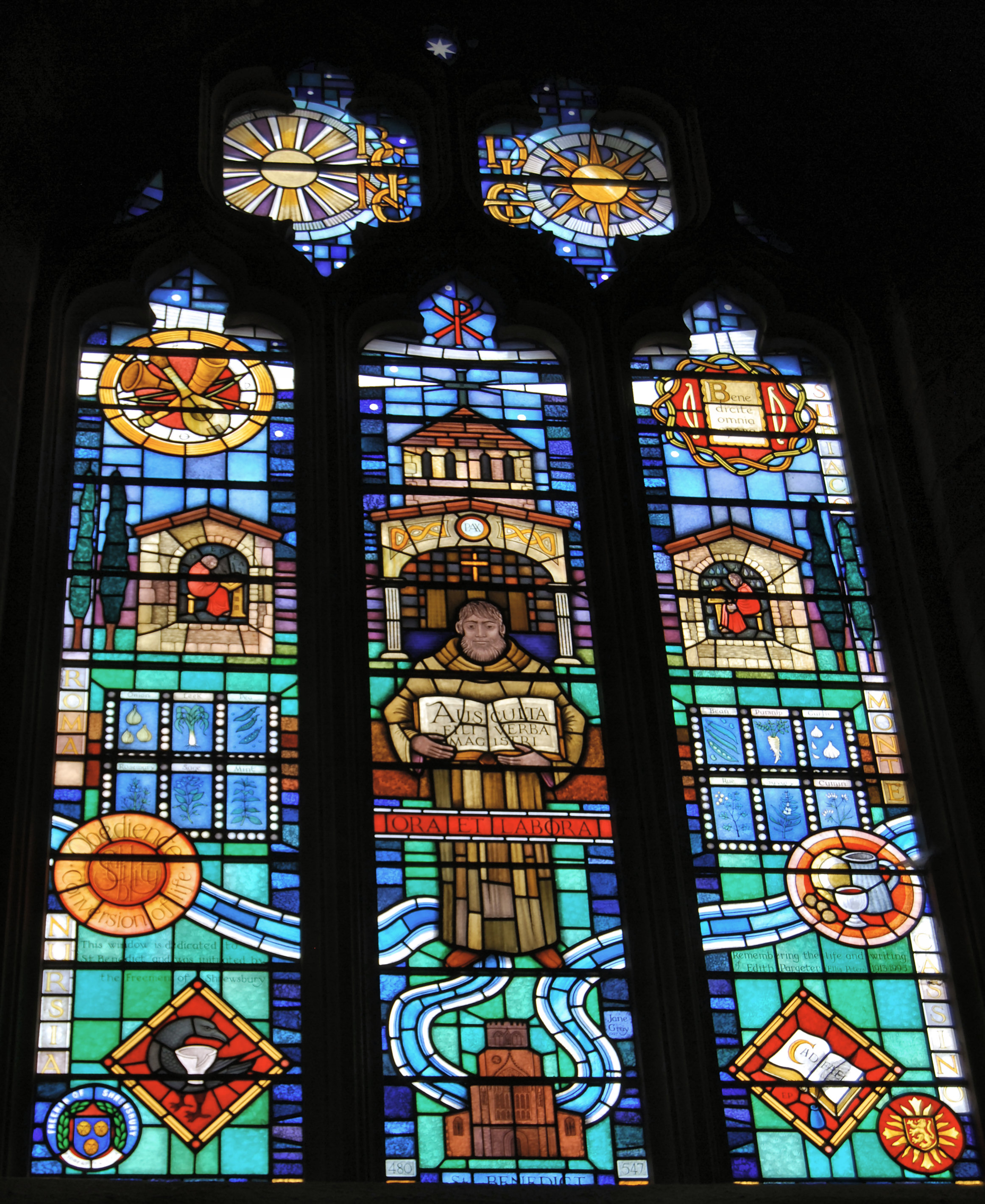 Shrewsbury Abbey. Window commemorating Ellis Peters (Edith Pargetter), author of the Brother Cadfael stories. Made by Jane Gray.